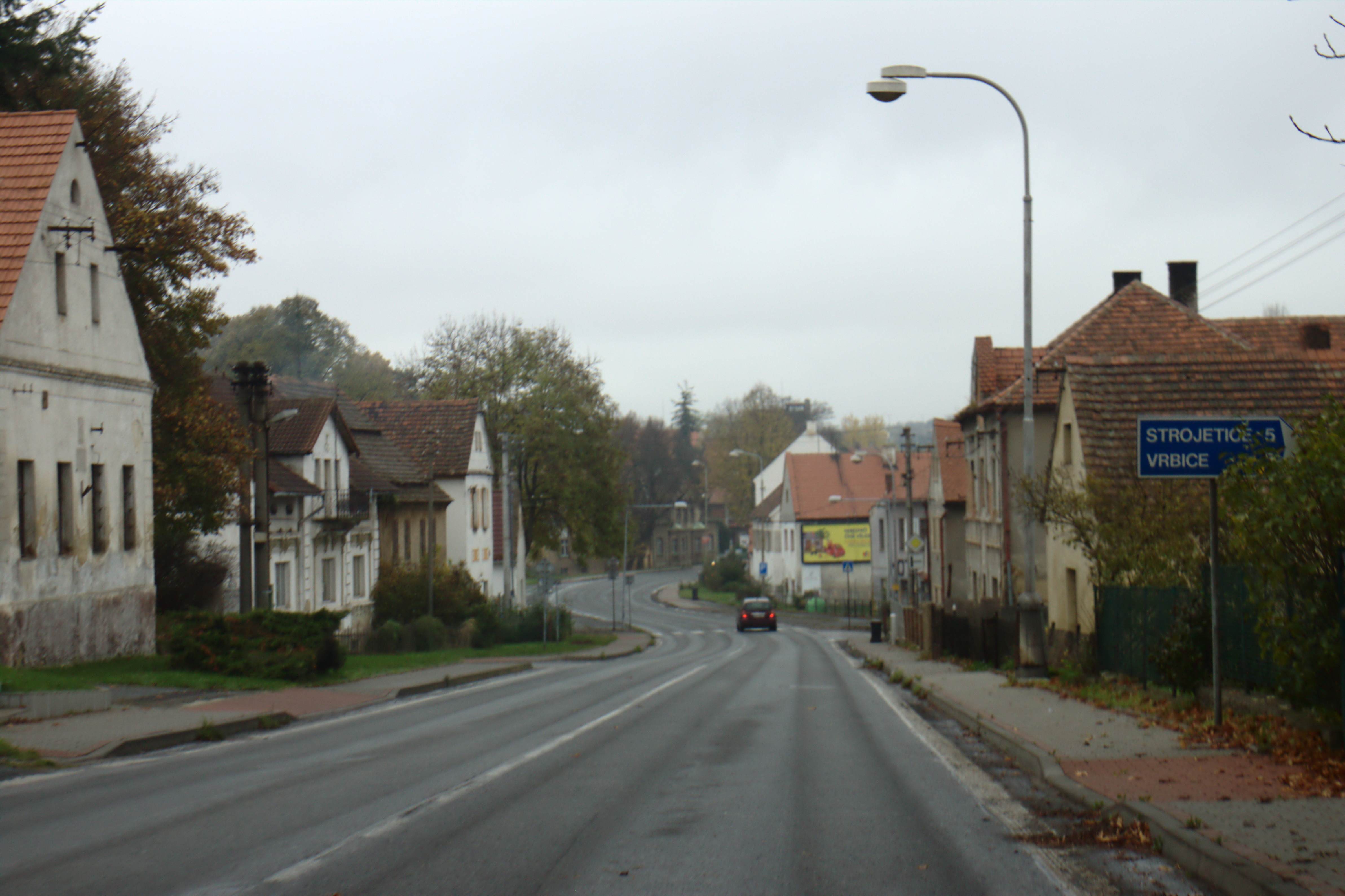 Central part of the village of Hořovičky, Central Bohemian Region, CZ